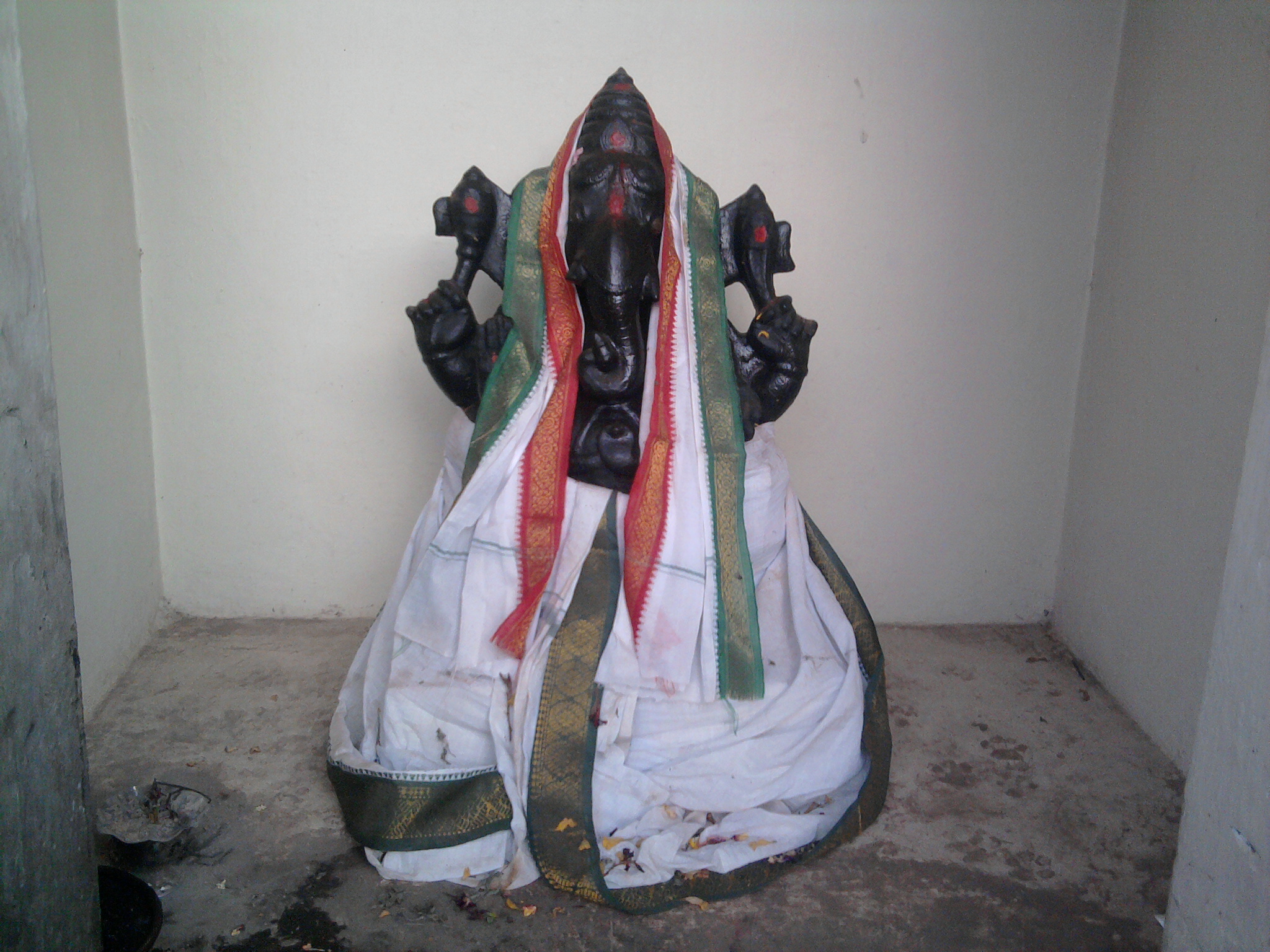 Sri Chennakesava Swami Temple, Vinjamur